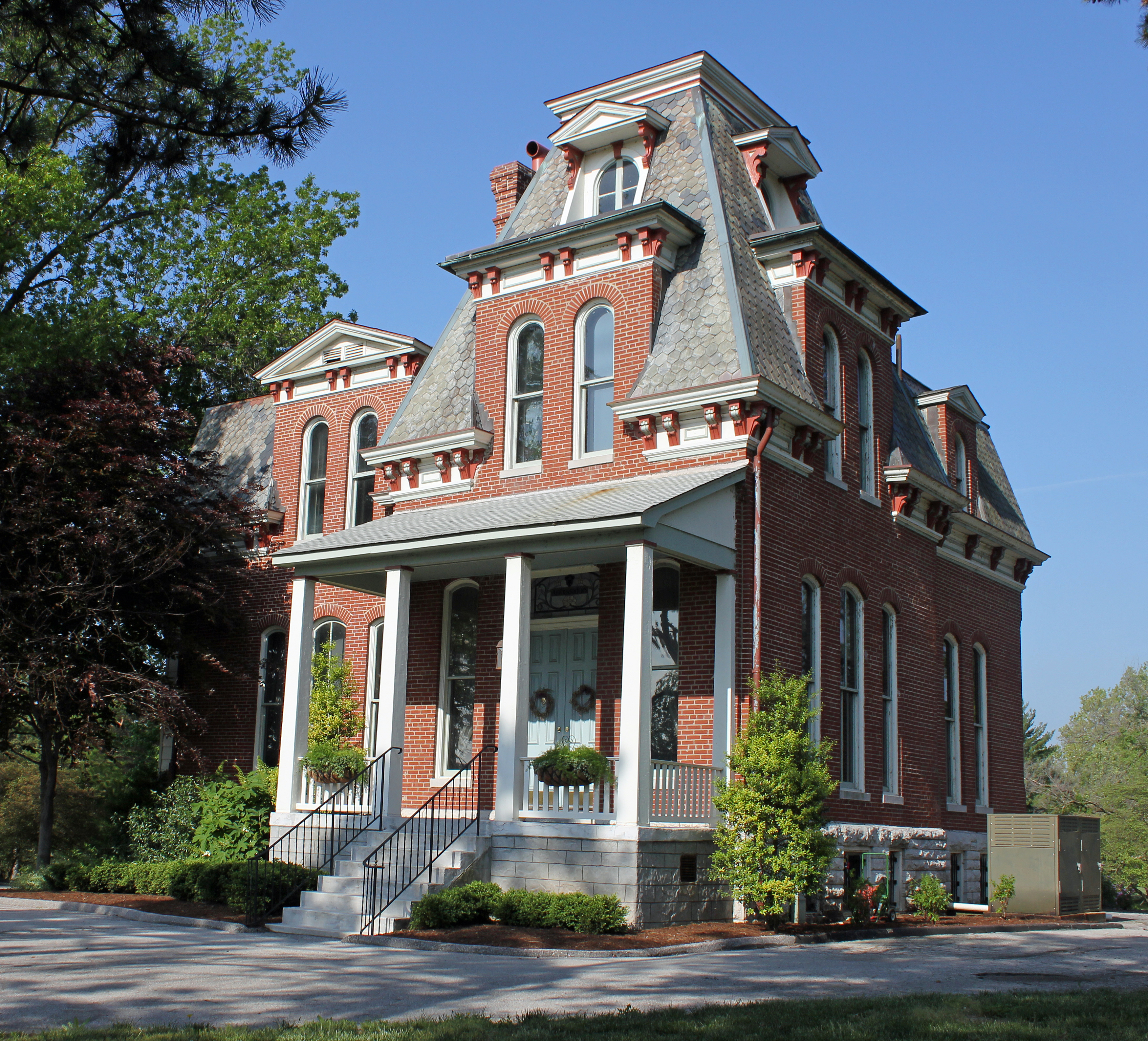 The Forest Park Headquarters Building, located at 115 Union in Saint Louis, Missouri. The building is listed on the National Register of Historic Places.